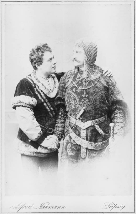 German actors Friedrich Mitterwurzer and Max Staegemann